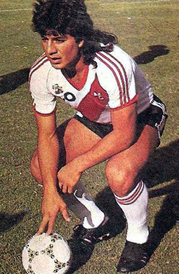 Argentine football forward, Juan Gilberto Funes (1963-1992).